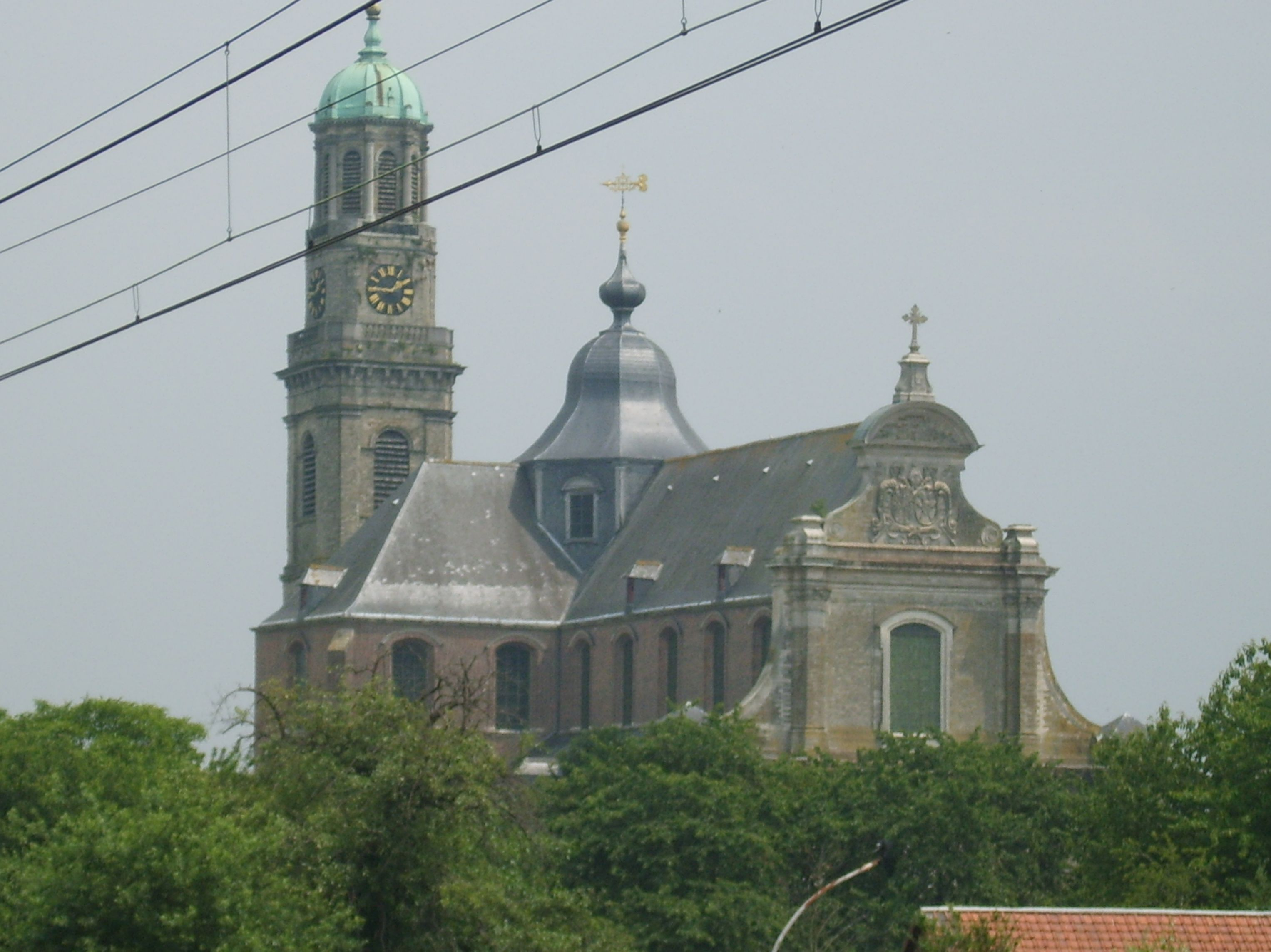 Picture of the abbey church of Ninove I myself took